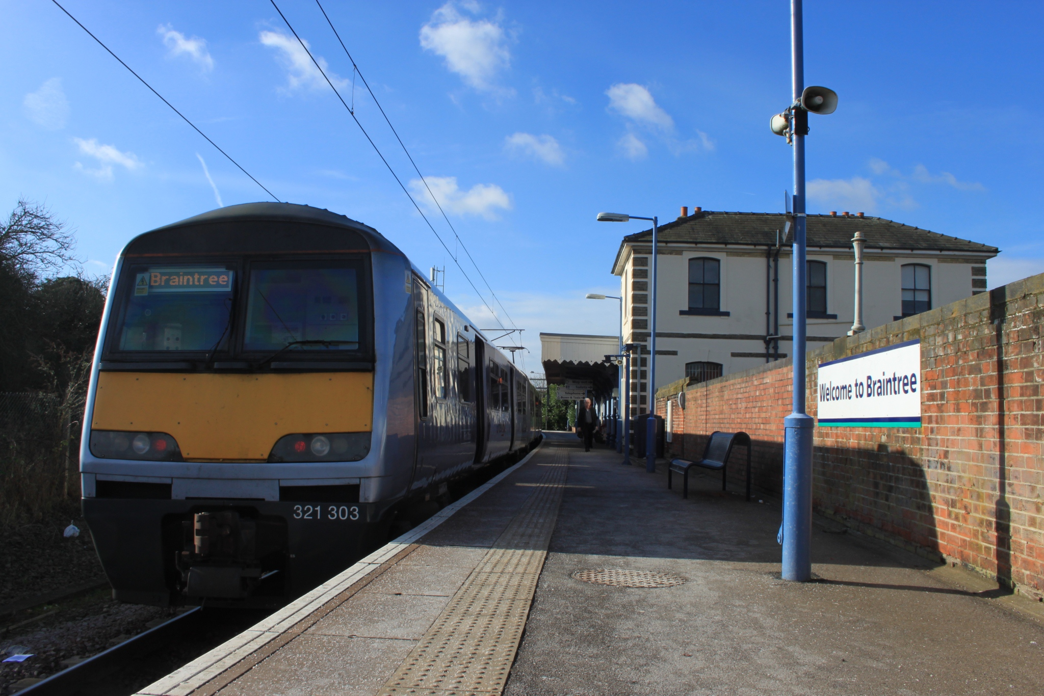 Greater Anglia's 321303 stands at the terminus of the the Braintree Branch Line in Essex, England, ready to return to London.